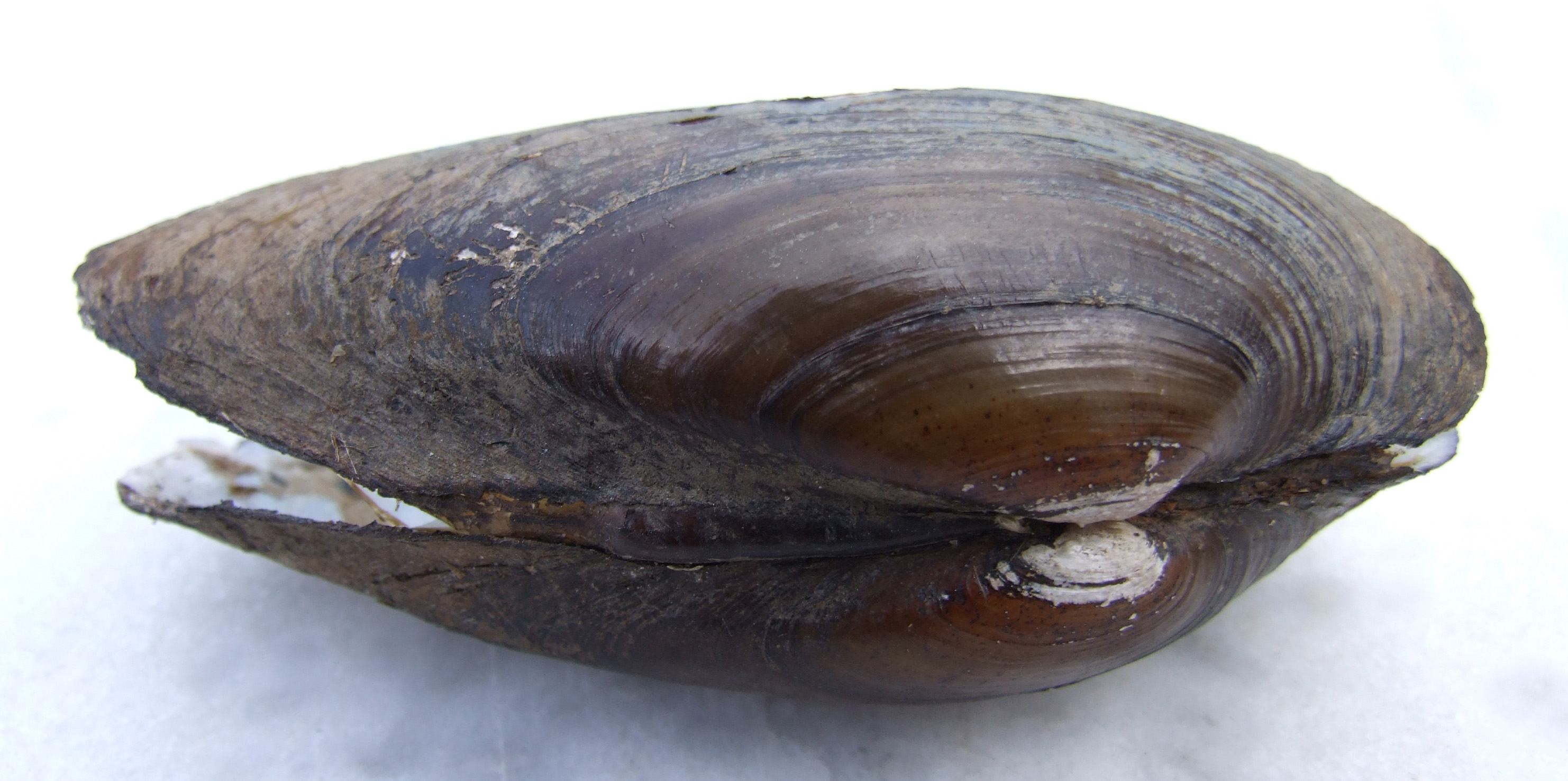 Shells of the swollen river mussel (Unio tumidus), length: 9,5 cm, Kirchwerder, Hamburg, Germany